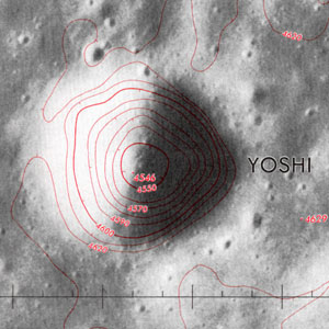 Yoshi lunar crater Topophotomap 42A4S1(10) detail; based on AS15-P-9350